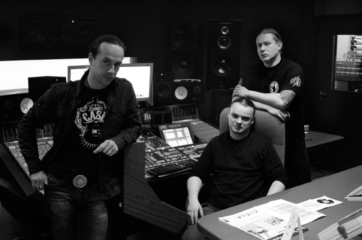 Behemoth at the studio recording The Apostasy album (from left Nergal, Malta and Inferno)